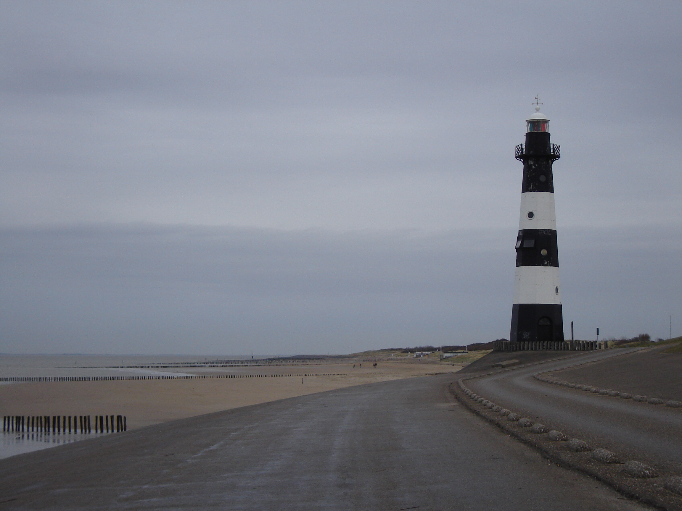 Lighthouse and beach on the Westerschelde in Breskens, Zeeland, the Netherlands